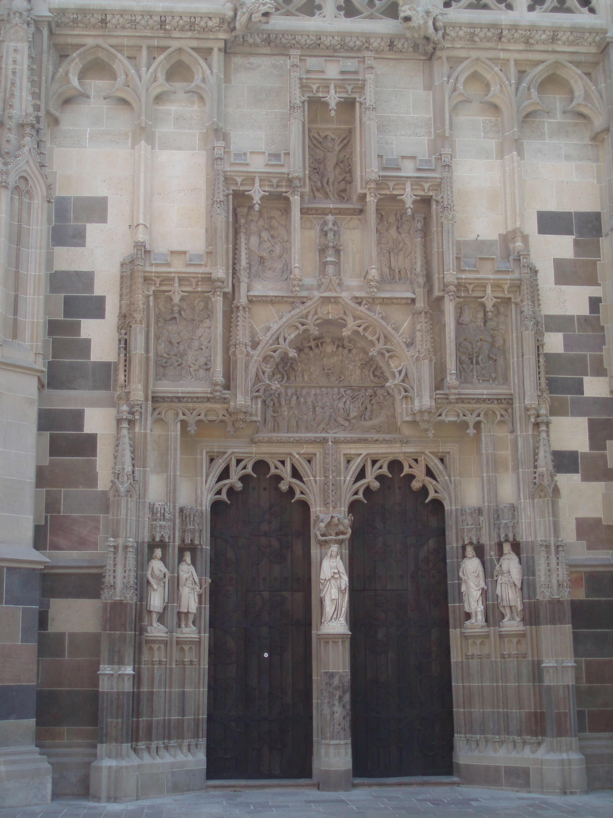 The north portal of St.Elisabeth Cathedral, Košice, Slovakia